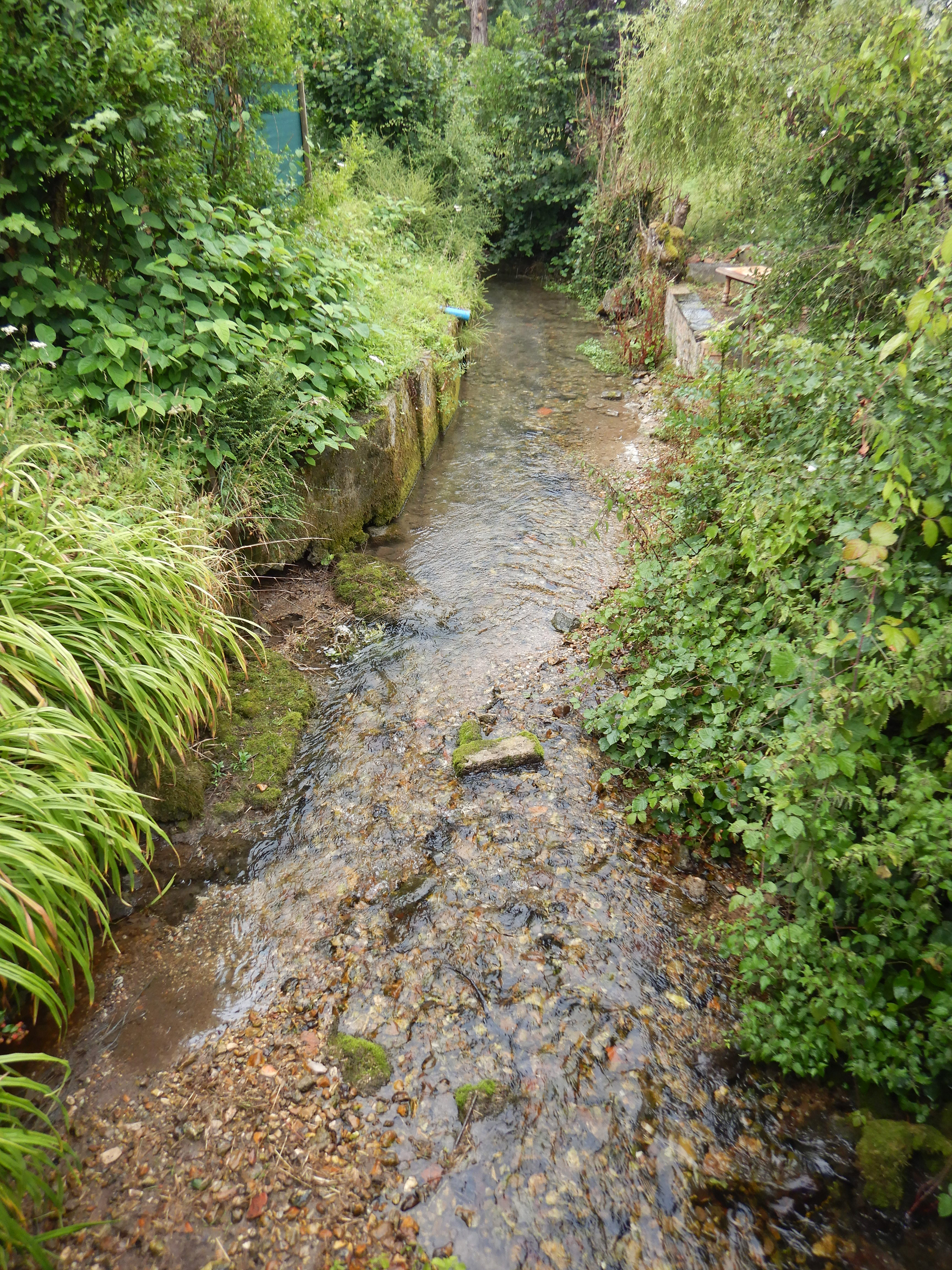 View of the "Embrienne river" in the "Embrienne valley", in the department "Pas-de-Calais", (Hauts-de-France region in northern France), in the "Seven Valleys". Photo made on the 10th of August 2017 (after two weeks unusually rainy for the region). The bottom of the river - where it is not silted up - is lined with pieces flint. Some segments of the first half of this watercourse shows pollution indices (bacteerial carpets and bacterial filtrates, lack of aquatic plants, low number of invertebrates) and others parts appear to be very clean (but with few fish and few visible animal organisms). Note: Locally, what appears to be large (up to 10 cm) subaquatic Nostoc bacterial colonies are visible (assemblages of cyanobacteria with photosynthetic capabilities) ; perhaps Nostoc verrucosum ?